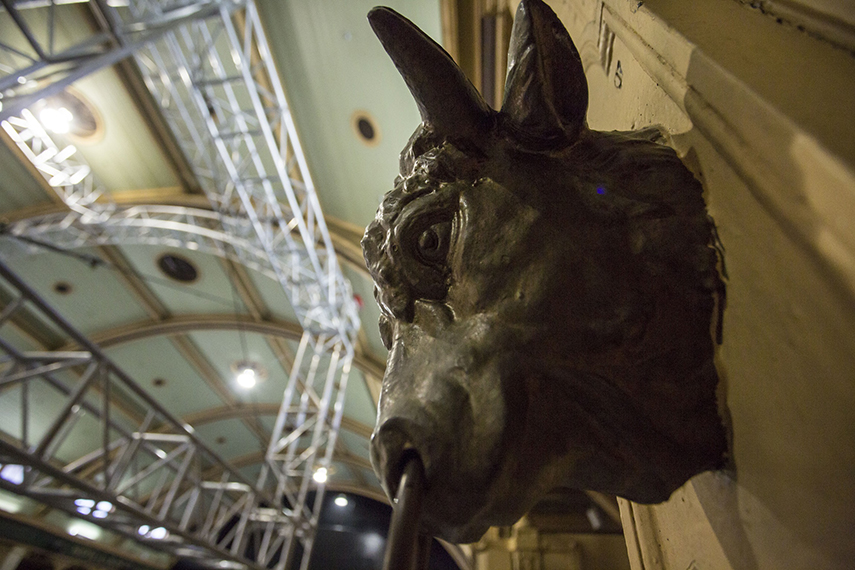 An example of the architecture space by commissioning architect George Johnson at Meat Market Melbourne. Photographed 2016.